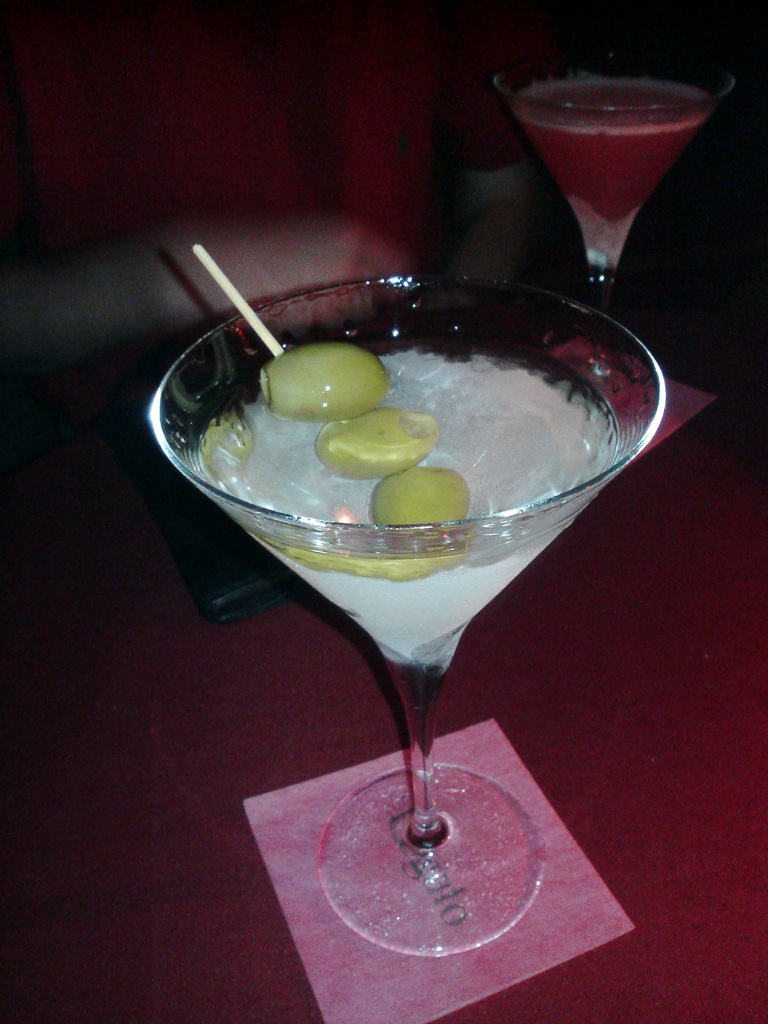 A classic martini with Lillet Blanc. Note the 3 olives. This was sampled in Legato's, Shibuya. My favourite drinkery in that part of town!